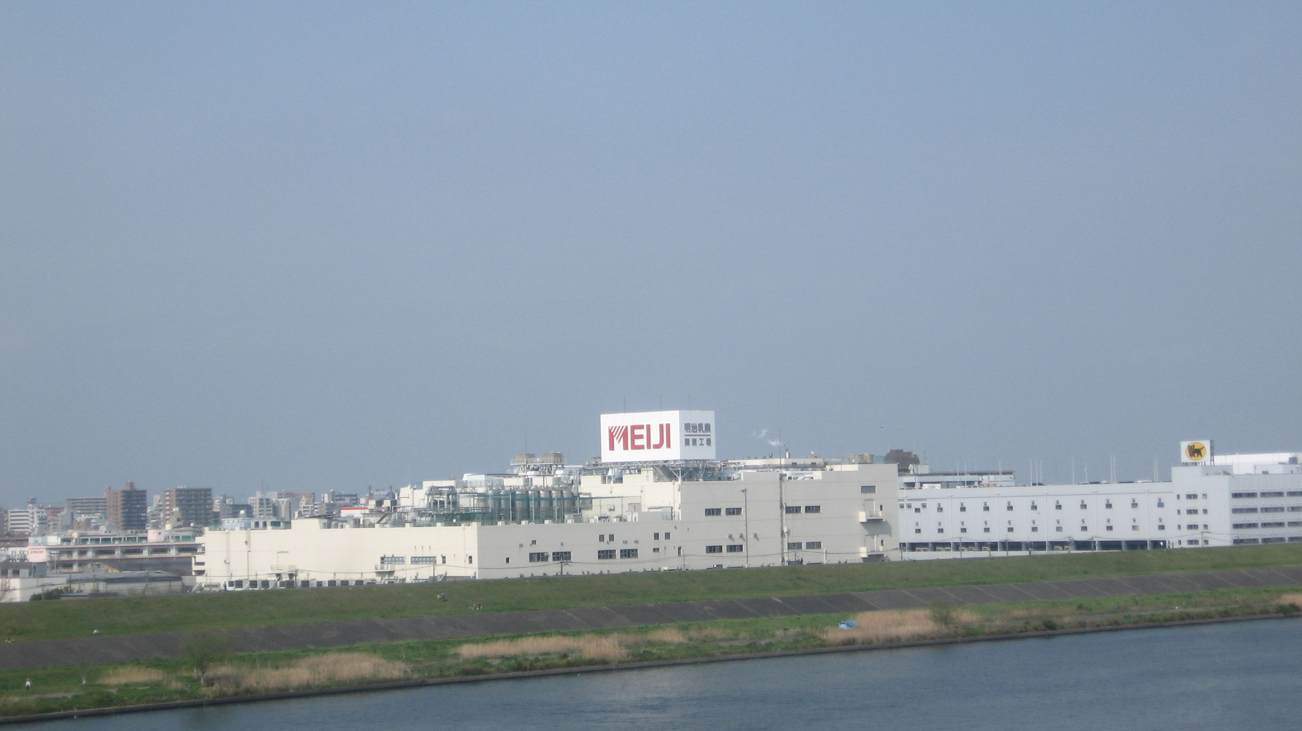 Meiji Milk Products Co.,Ltd. Kanto factory from Toda, Saitama.